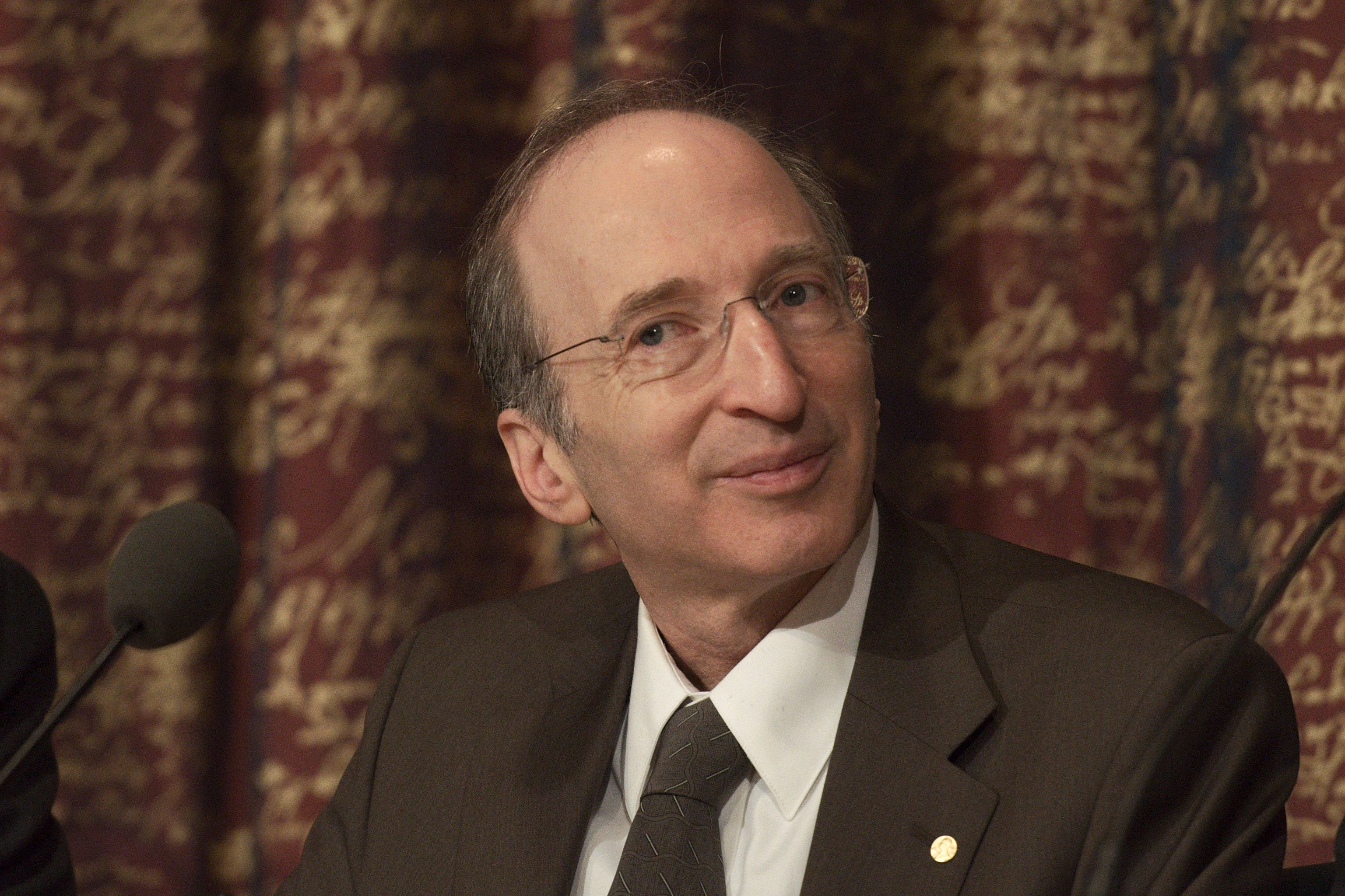 Nobel Prize 2011, press conference with the laureates of the Nobel prizes in chemistry and physics and the memorial prize in economic sciences at the Royal Swedish Academy of Sciences.